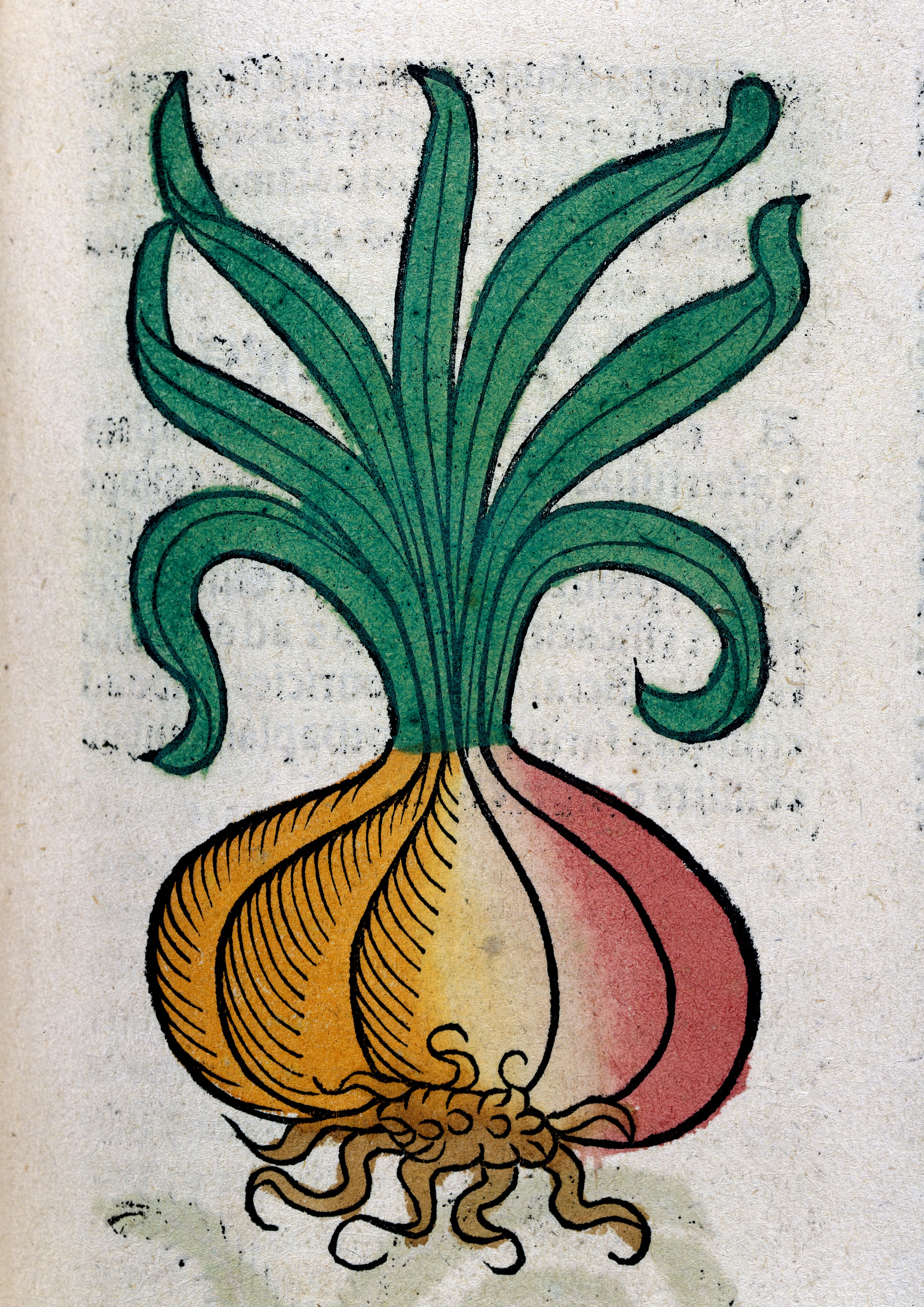 An onion Rare Books Keywords: Hortus Sanitatis; Incunabula; Middle Ages; Medieval